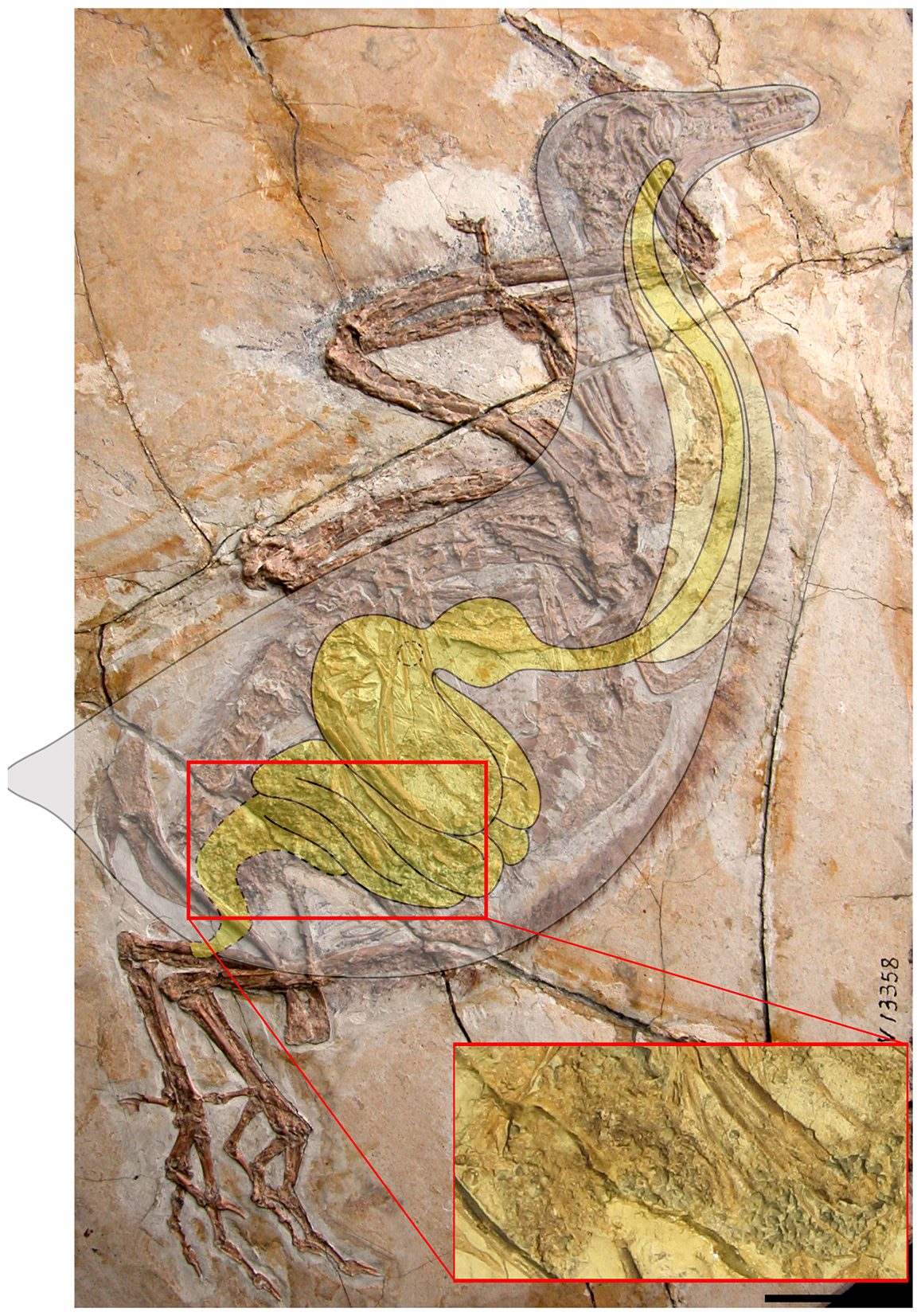 Interpretative drawing of the alimentary canal of Yanornis superimposed over IVPP V13558. Enlarged red box shows preservation of sand compacted in the intestines. The grit is clearly too caudally located to represent gizzard stones. The oesophagus is drawn in a way to demonstrate its flexibility; it leads to the small proventriculus (pyloric sphincter indicated by dashed circle), followed by the larger ventriculus, and then the intestines and cloaca. Scale bar equals 1 cm.